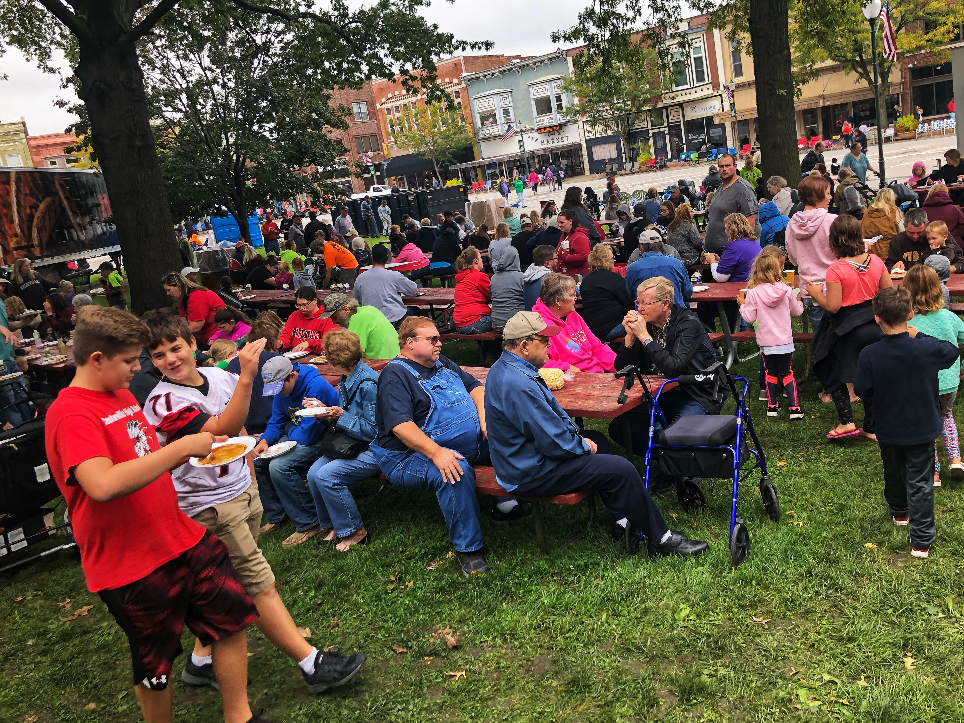 Picnic tables full of people on the Centerville, Iowa courthouse lawn eating pancakes.